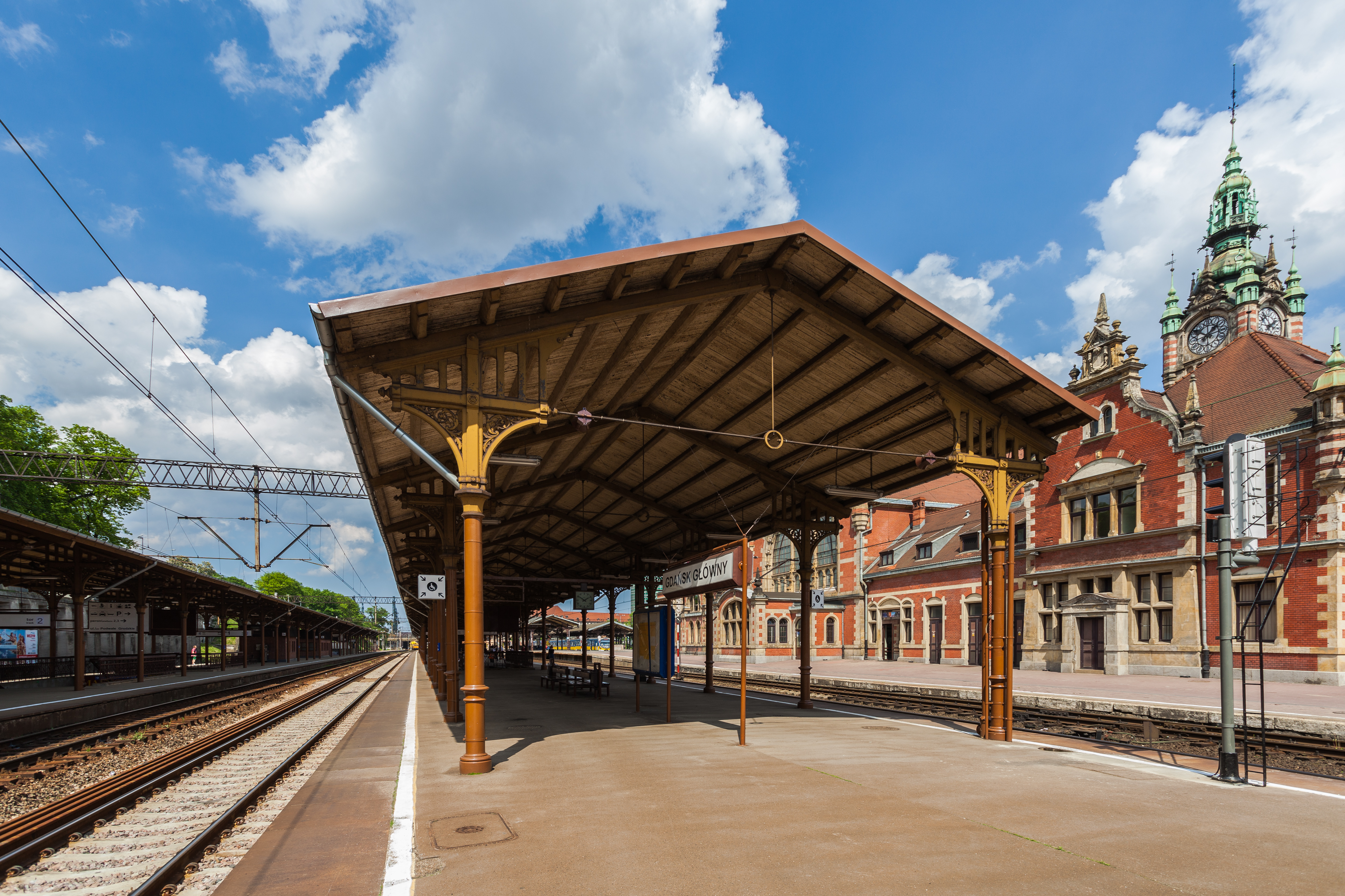 Central Railway Station, Gdansk, Poland